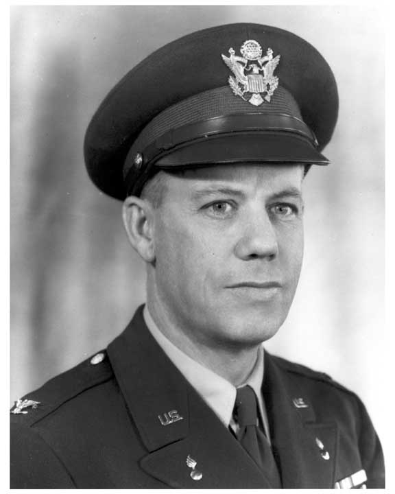 Colonel Carroll D. Hudson, the Redstone Arsenal Commanding Officer.